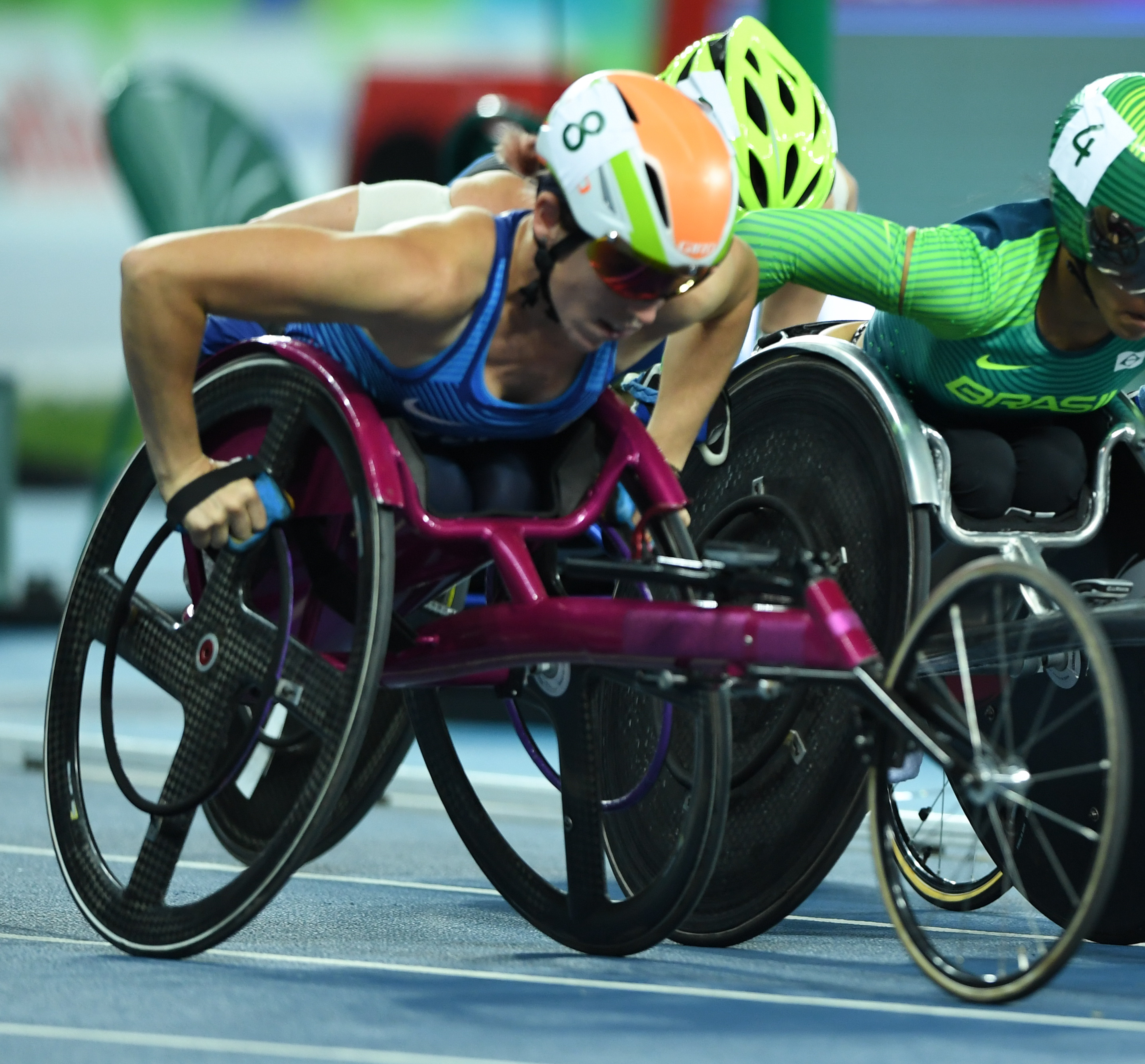 Amanda McGrory et al in Rio de Janeiro - Wheelchair 1500m Women;s Category T54 at the Paralimpics in Rio (Picture by Tomaz Silva/Agência Brasil)